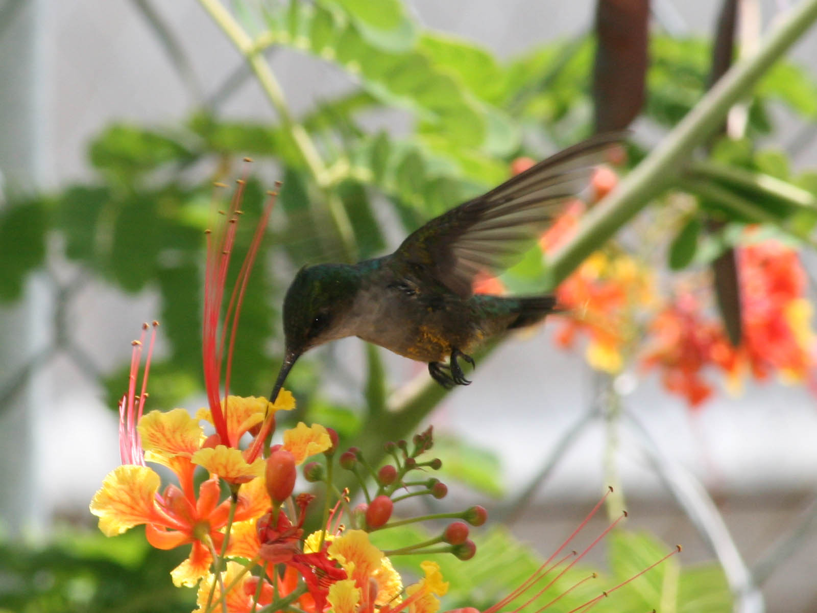 Puerto Rican Emerald (Chlorostilbon maugaeus), Las Marias, Vieques, Puerto Rico